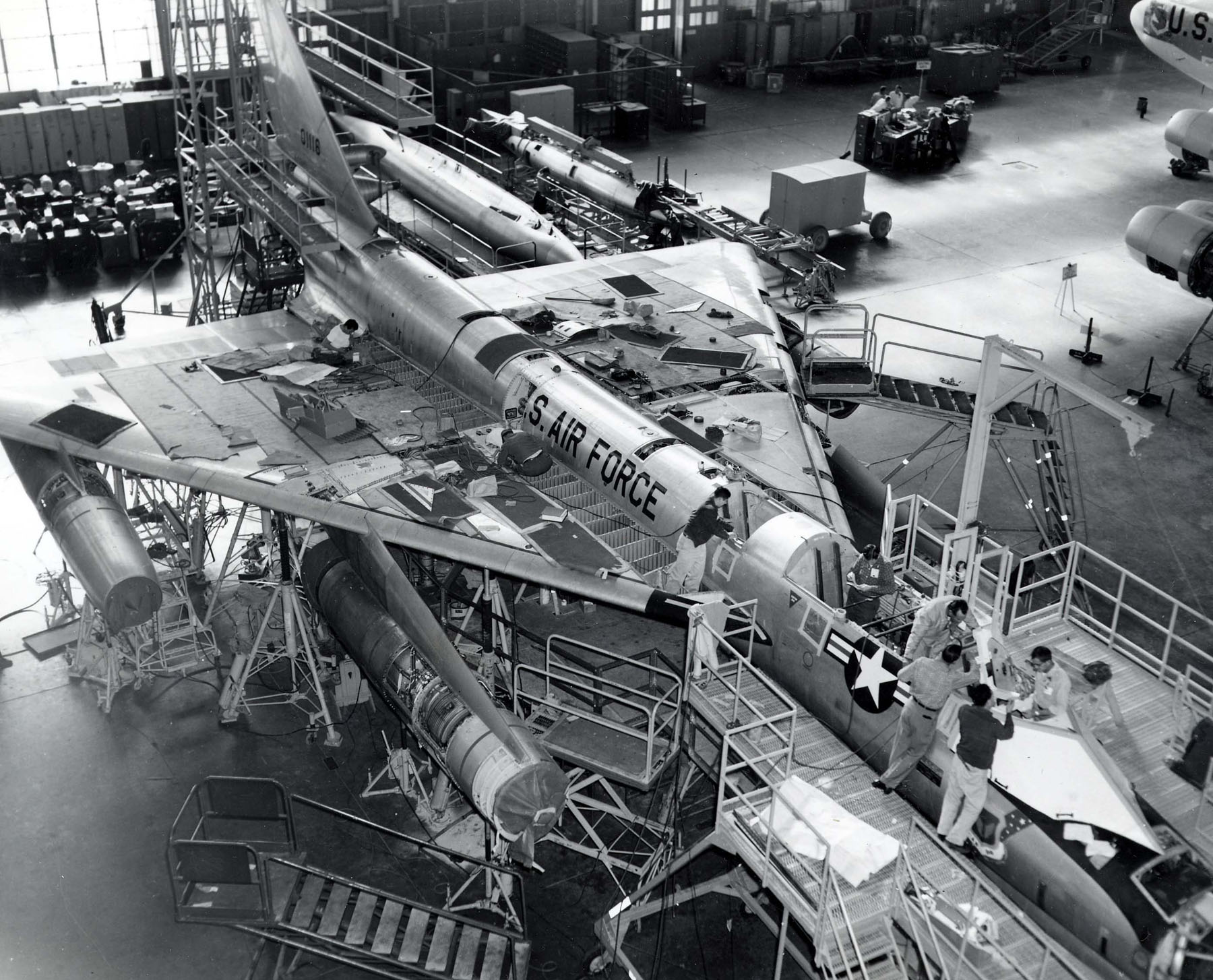 Convair B-58 Hustler under construction